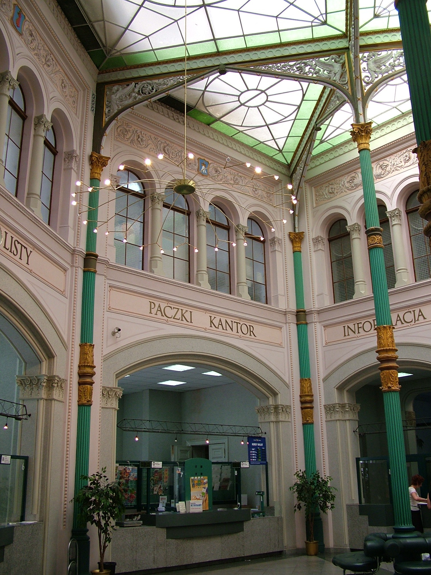 Inside post office no 2